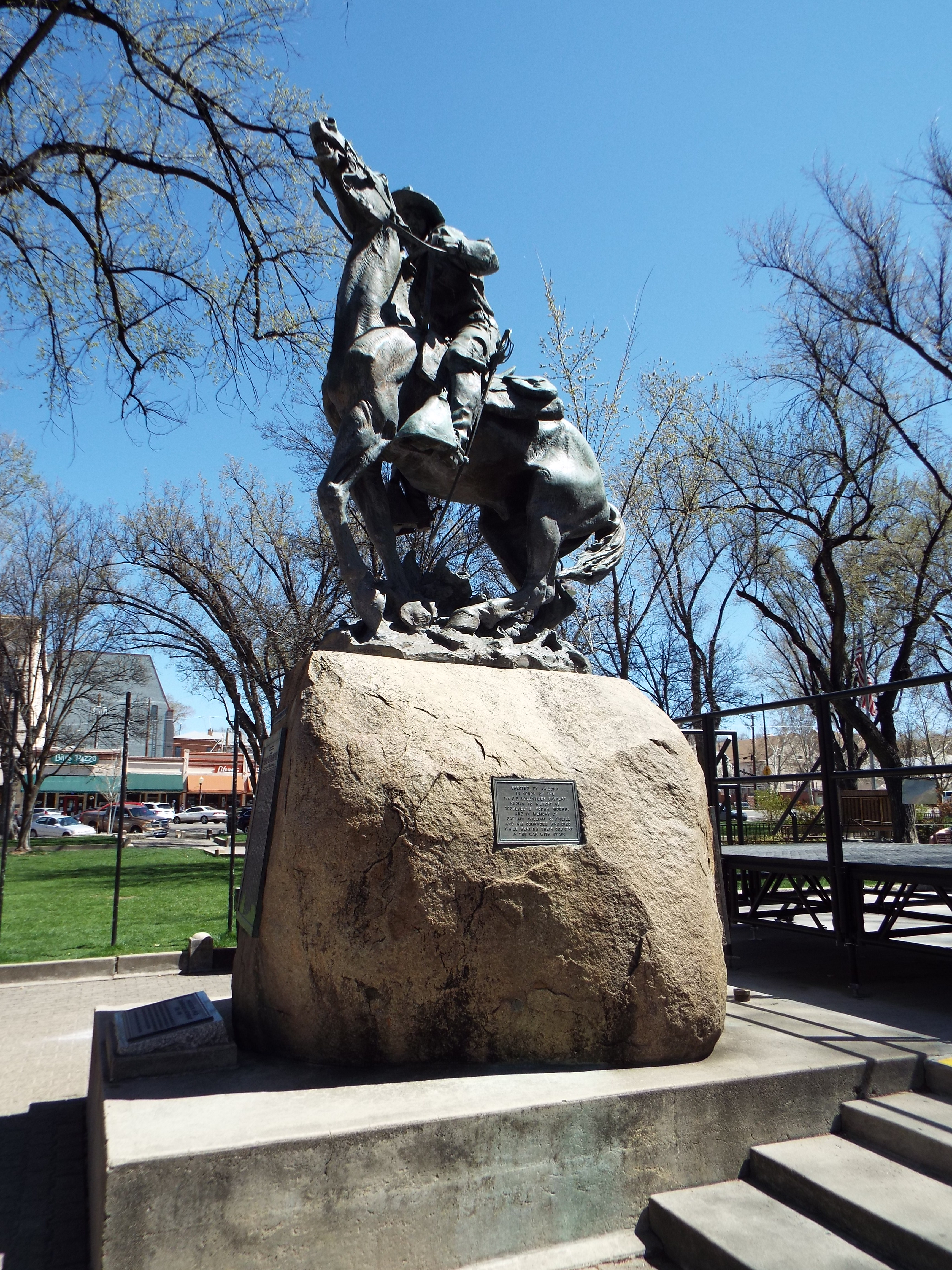 Bucky O'Neill Statue dedicated in 1907 in Prescott, Az